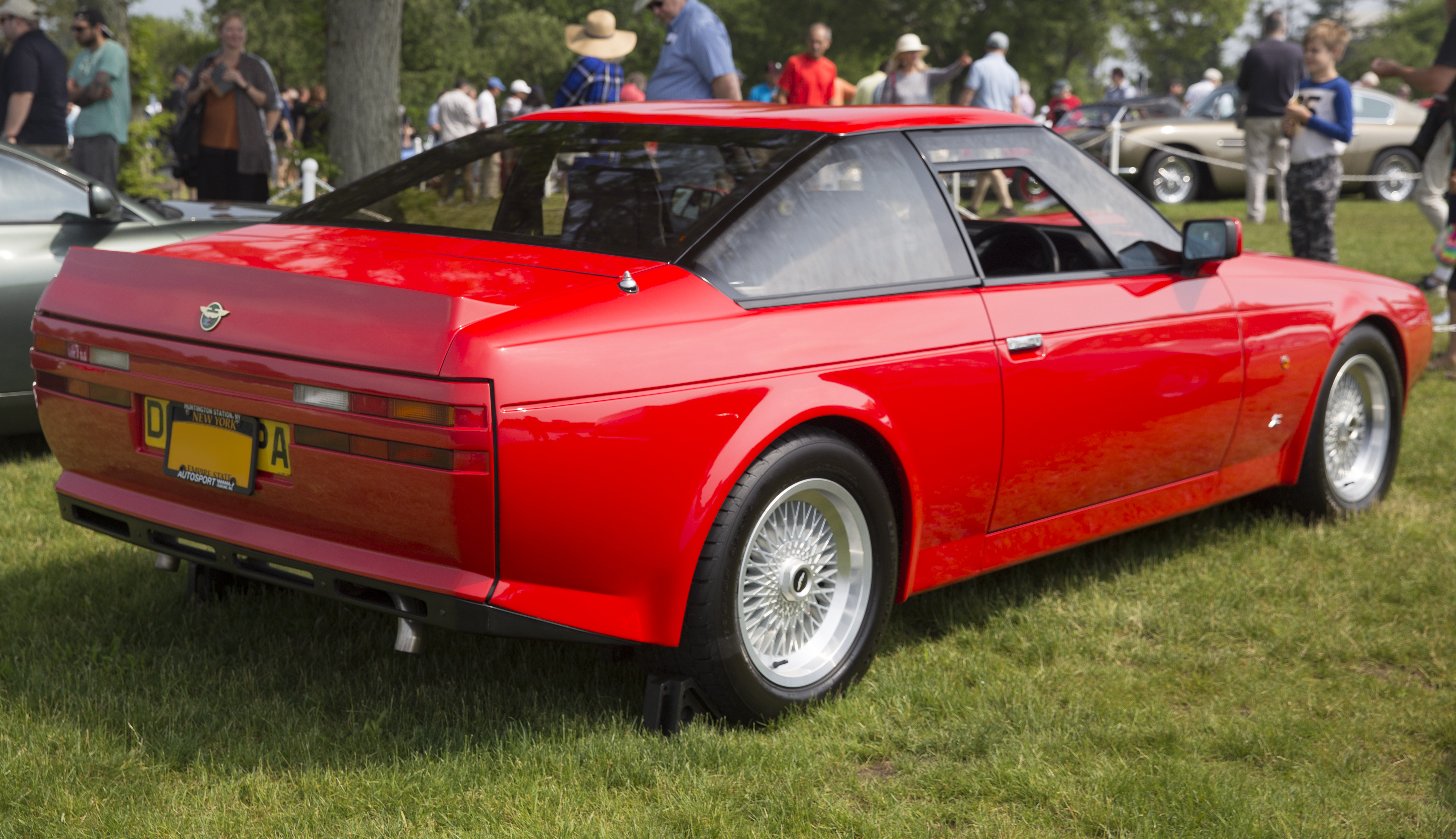 1987 Aston Martin V8 Vantage Zagato at the 2019 Greenwich Concours d'Elegance. Manual transmission, RHD, original Gladiator Red with Black interior. Build date is 1986 (the tenth car produced), originally delivered to England.